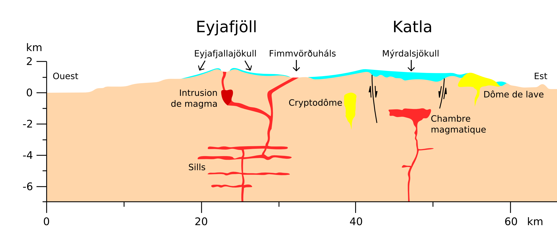 Schematic cross-section from west to east across the Eyjafjallajökull and Katla volcanoes. Magmatic intrusions are drawn in red, rhyolitic domes and the cryptodome in yellow; glaciers are shown in light blue.